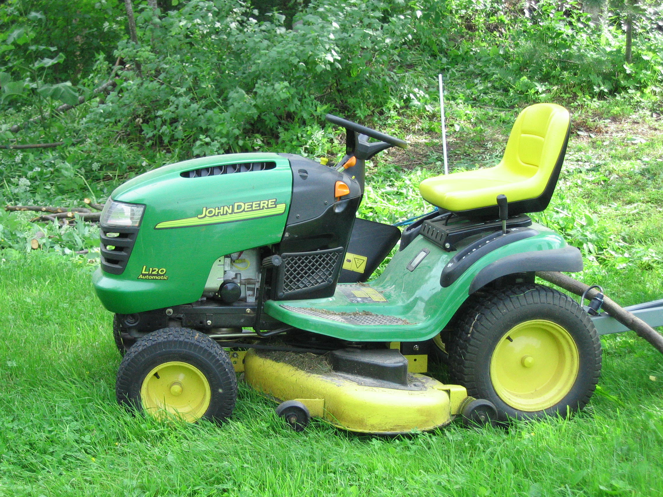 A John Deere L120 lawn mower in a Finnish garden.